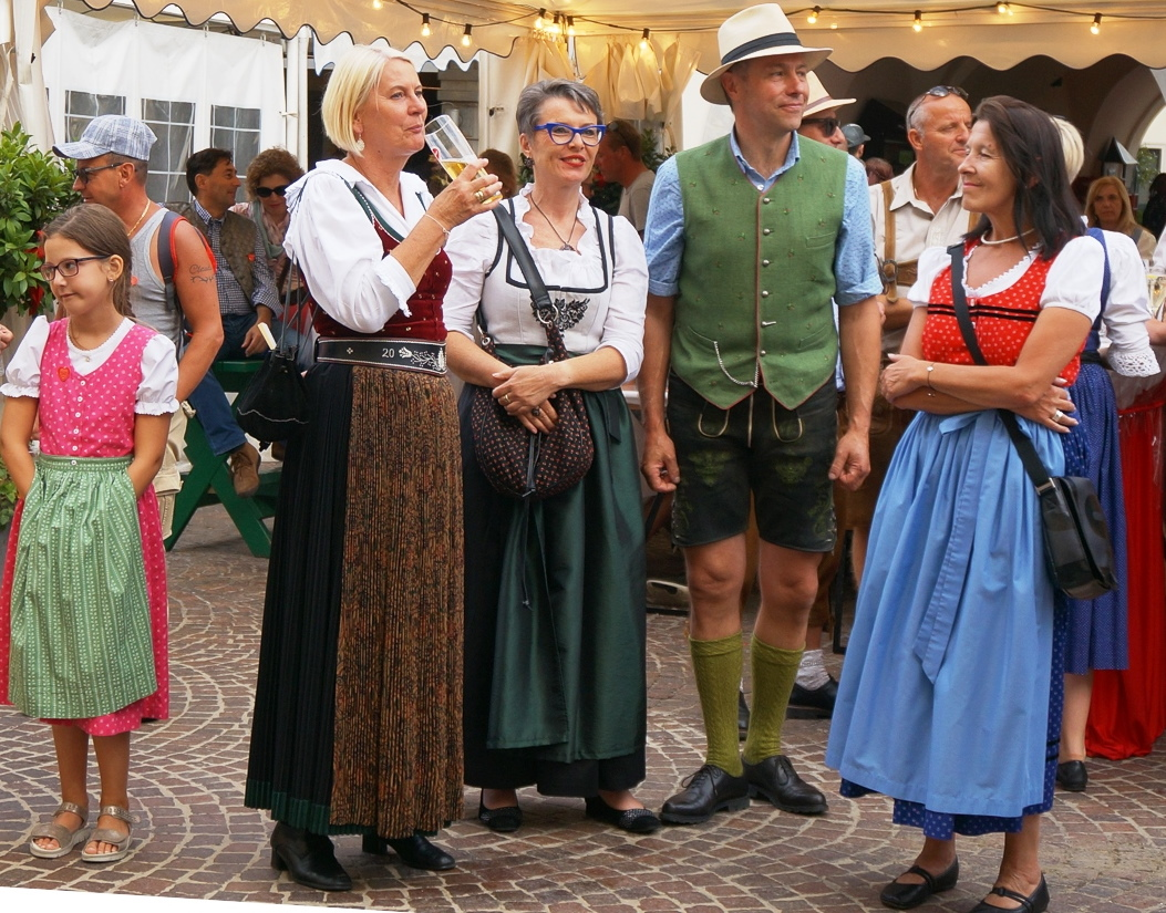 Visitors in fashionable costumes, at Villach Kirchtag 2019, the largest traditional event in Carinthia, Austria, European Union